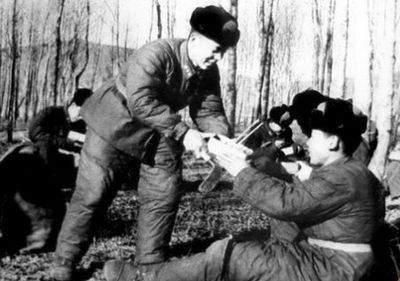 Lei Feng in 1960 in Anshan.